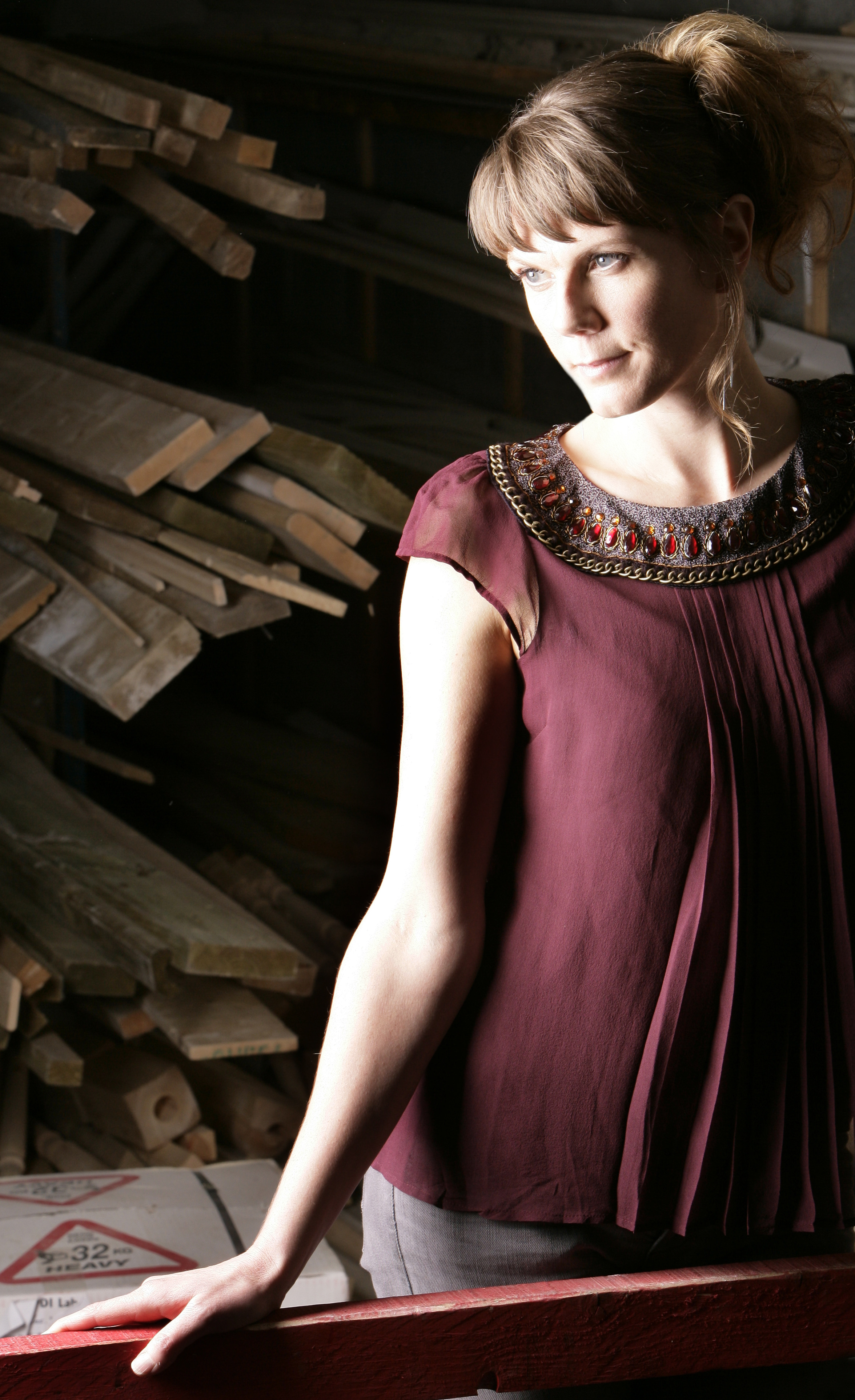 Promotional picture of Juliet Turner